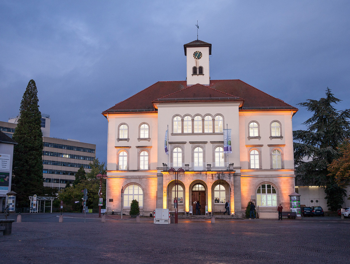 Galerie Stadt Sindelfingen, Außenansicht